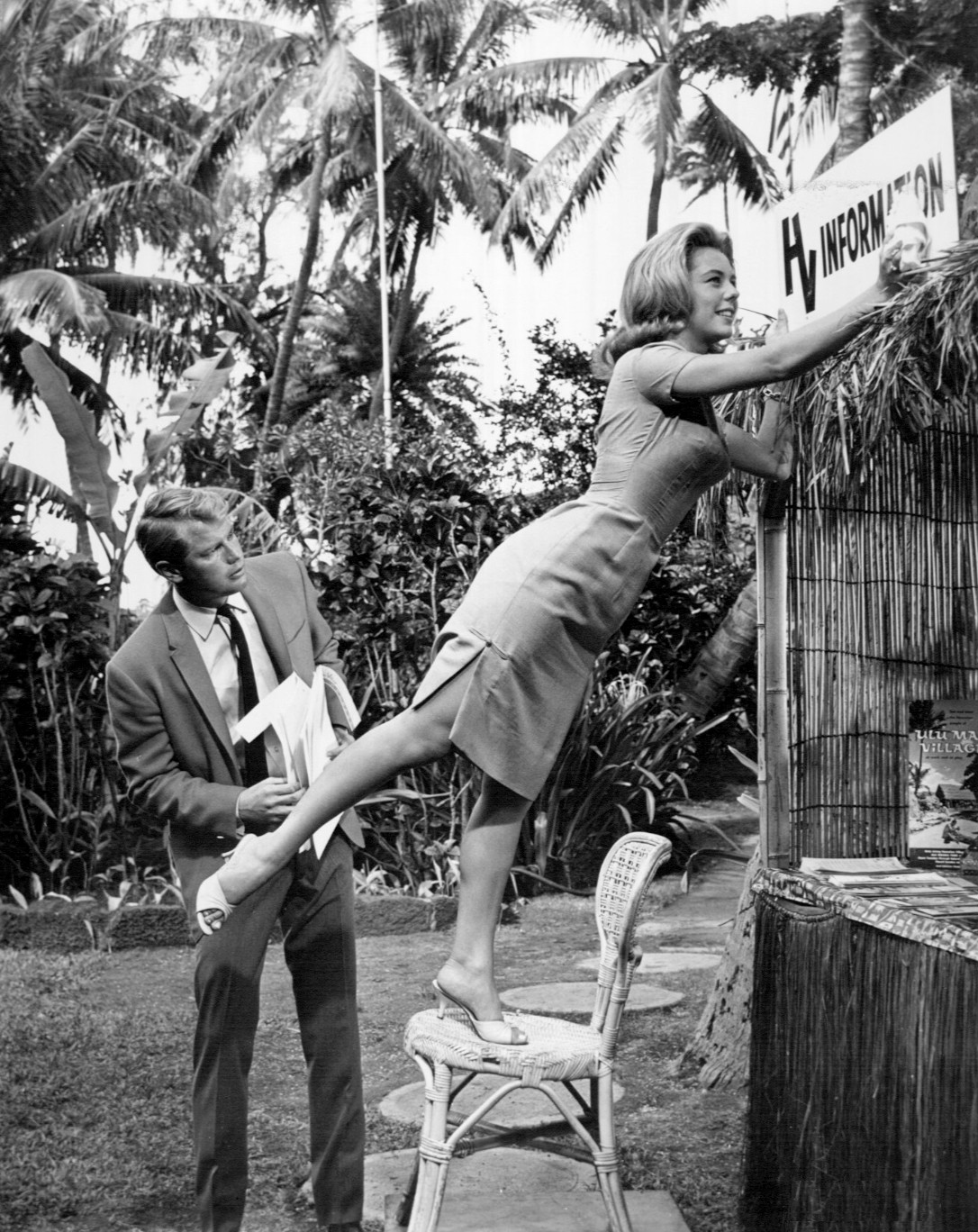 Photo of Troy Donahue and Tina Cole from the television series Hawaiian Eye.